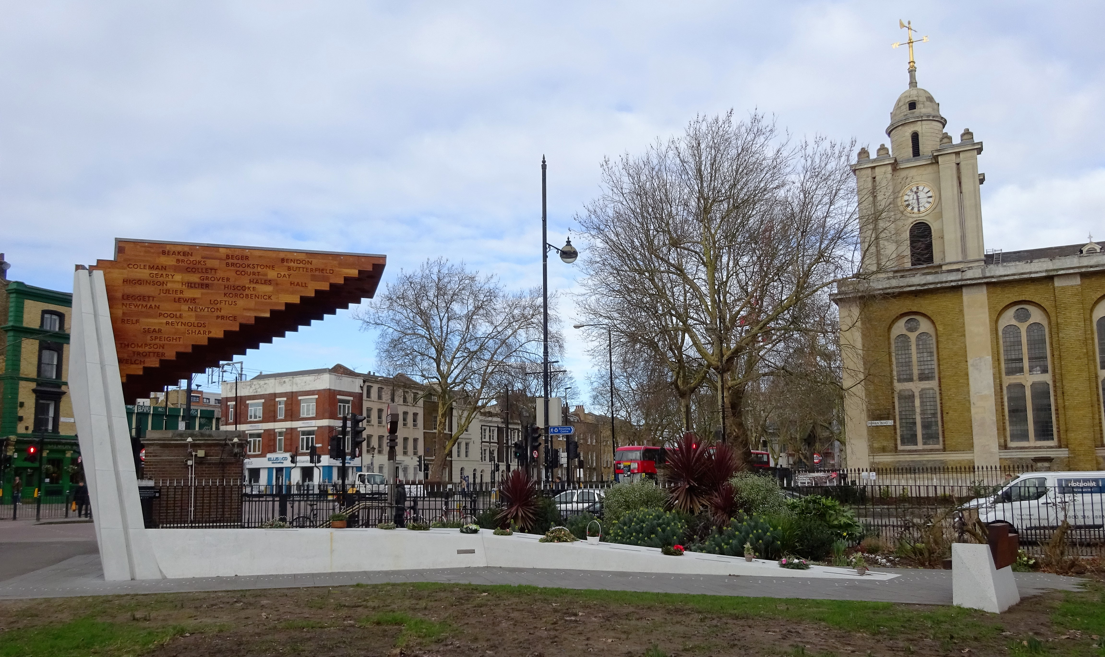 'Stairway to Heaven', Bethnal Green, London: monument by Arboreal Architecture, working with The Morton Partnership and Atelier Dreibholz, commemorating the Bethnal Green Tube Station disaster of 3 March 1943. Unveiled 16 December 2017